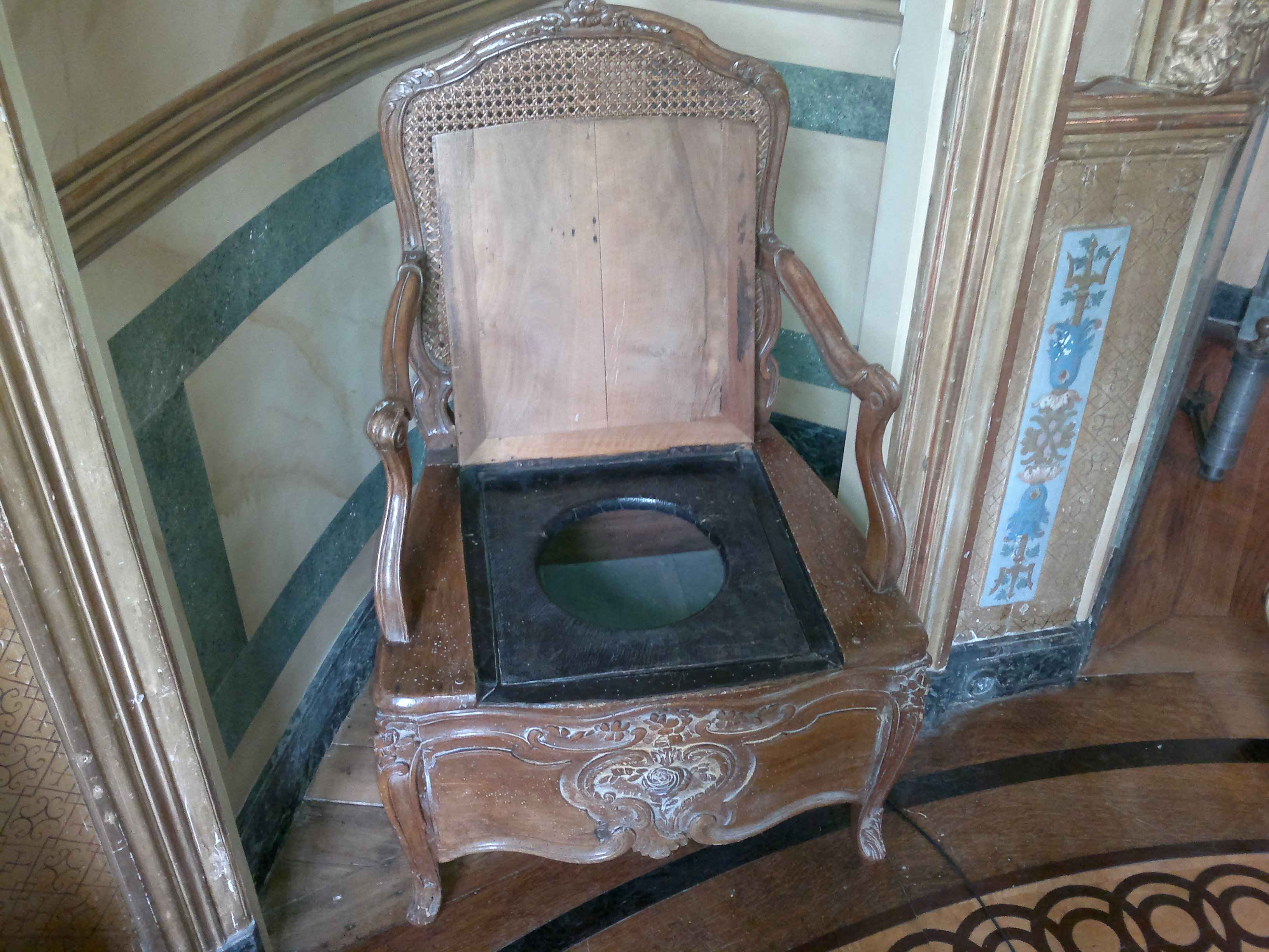 Castle of Vaux-le-Vicomte : bathroom. Chair with a hole for defecation.